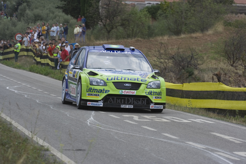 Marcus Grönholm driving his Ford Focus RS WRC 07 at the 2007 Rally Catalunya.